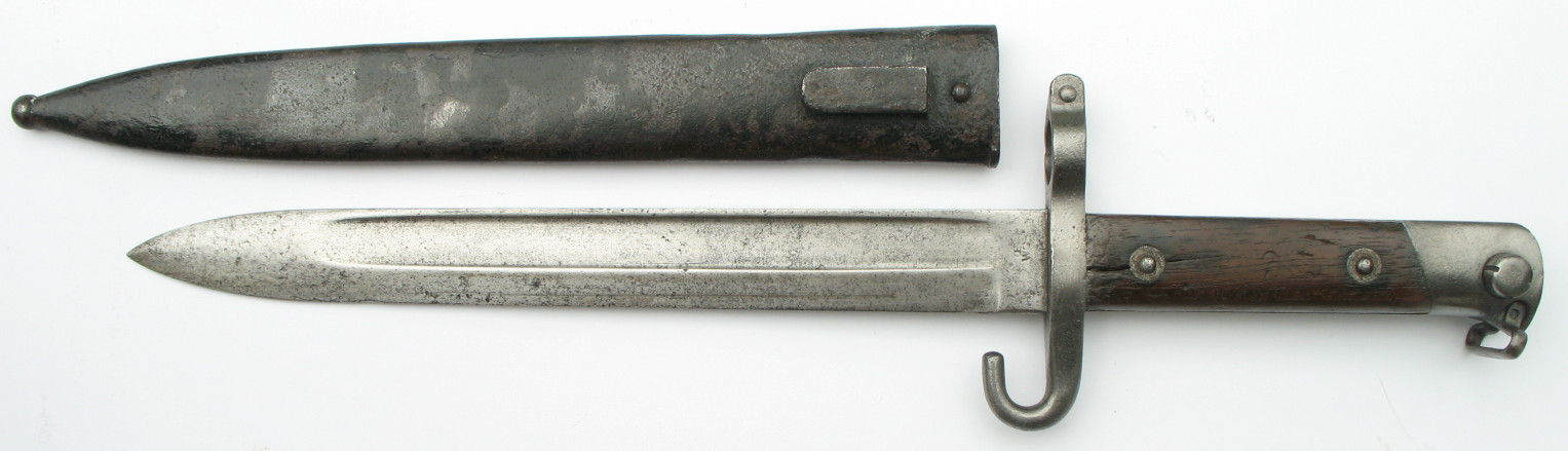 Mannlicher M1888 Bayonet NCO (for non-commissioned officer) for M1888 and M1890 Mannlicher rifles